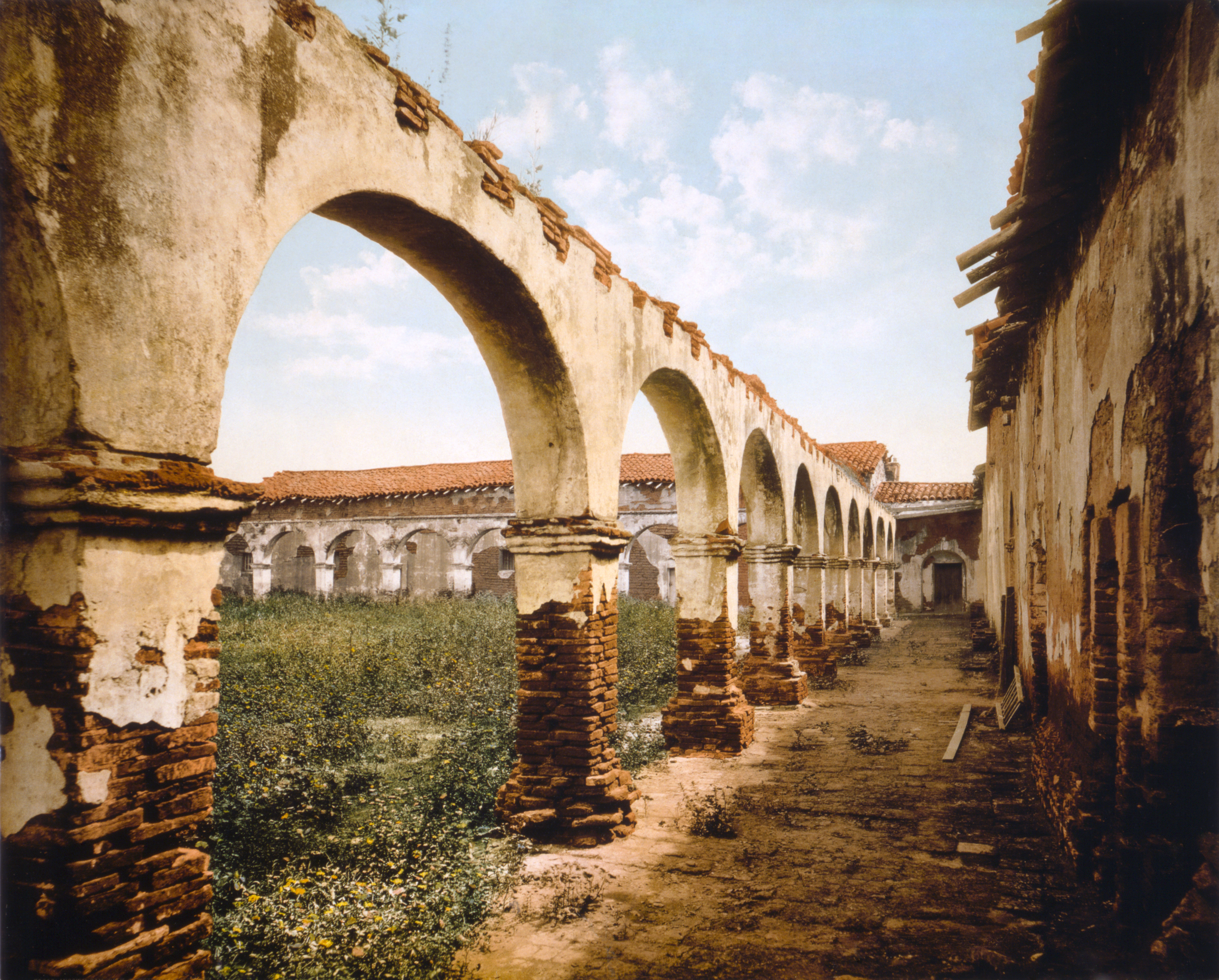 Mission San Juan Capistrano courtyard ruins (c. 1899) — Southern California. Photochrom picture by William Henry Jackson.